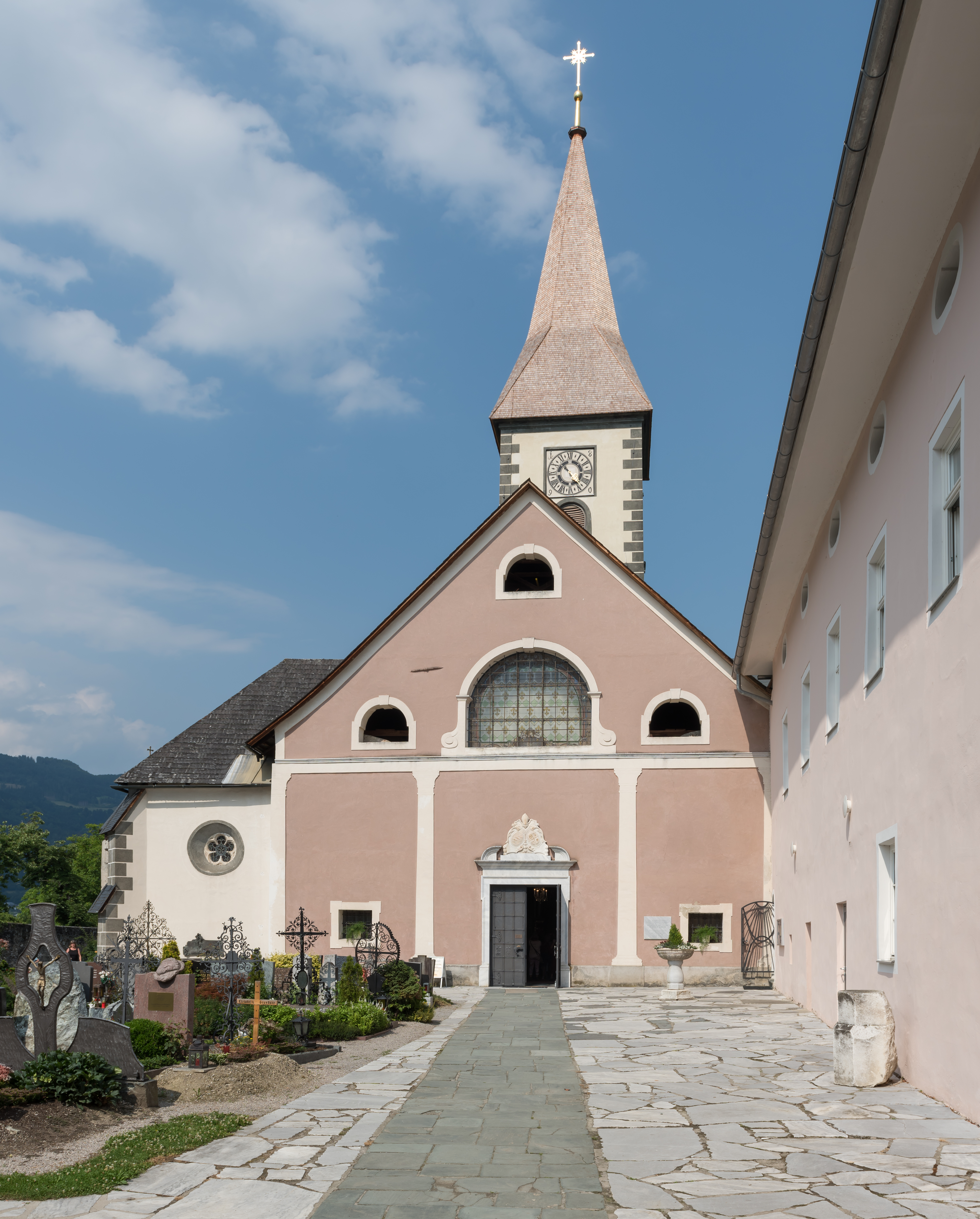 Cemetery with parish and monastery church Assumption of Mary, Ossiach #1, municipality Ossiach, district Feldkirchen, Carinthia, Austria, EU